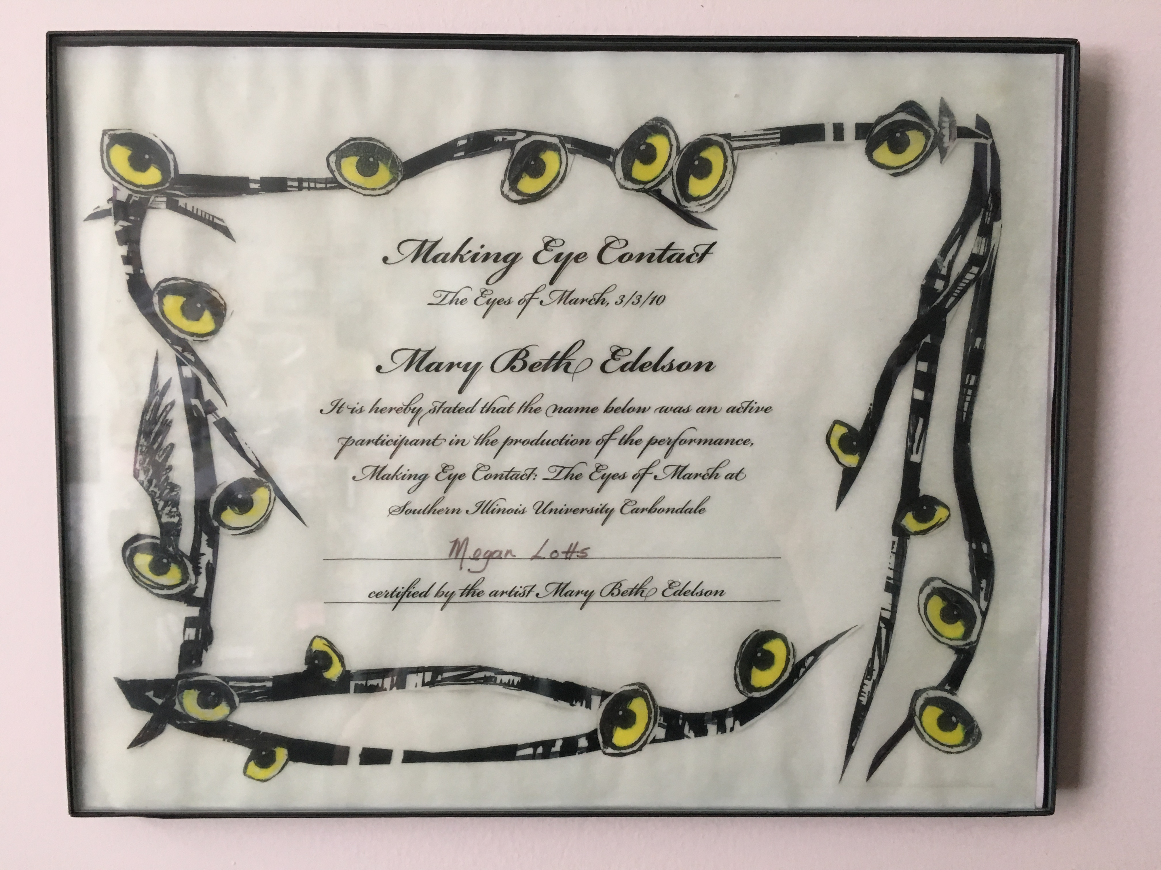 relic from Making Eye Contact a project by Mary Beth Edelson